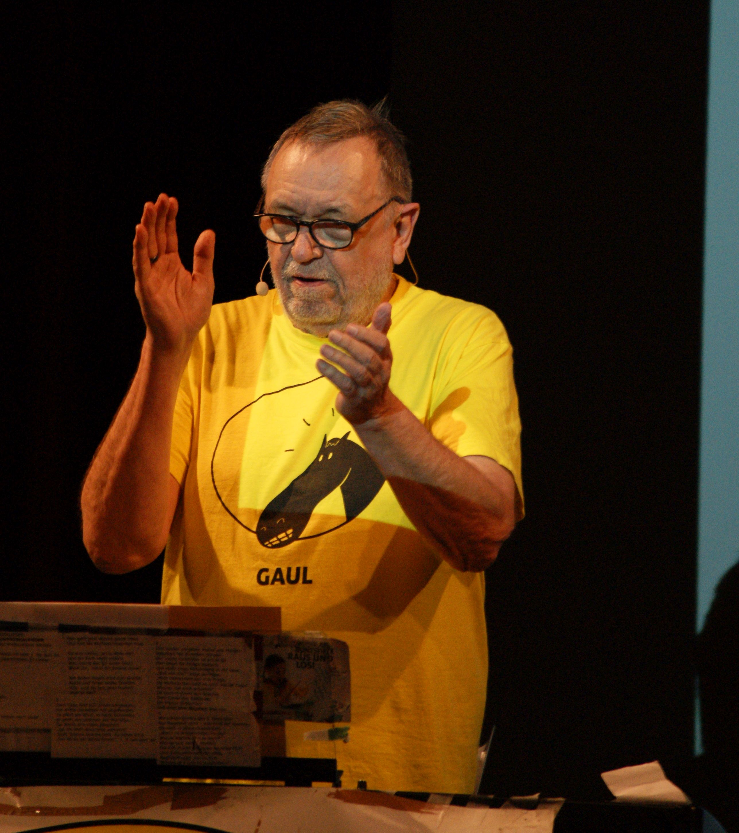 Ulrich Gabriel at the event "Spring Songs" 2019 in Spielboden in Dornbirn.